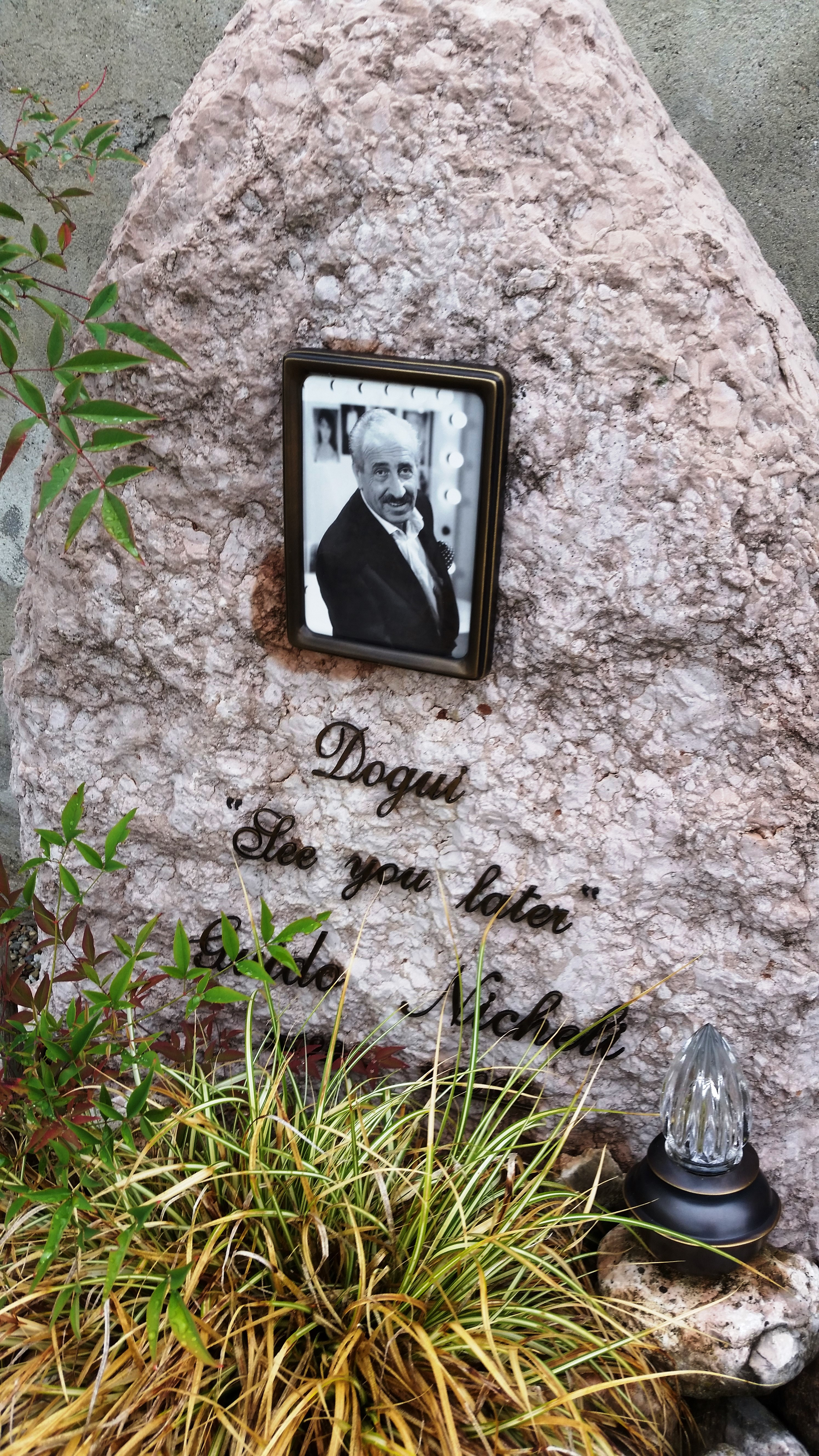 Guido Nichel's grave